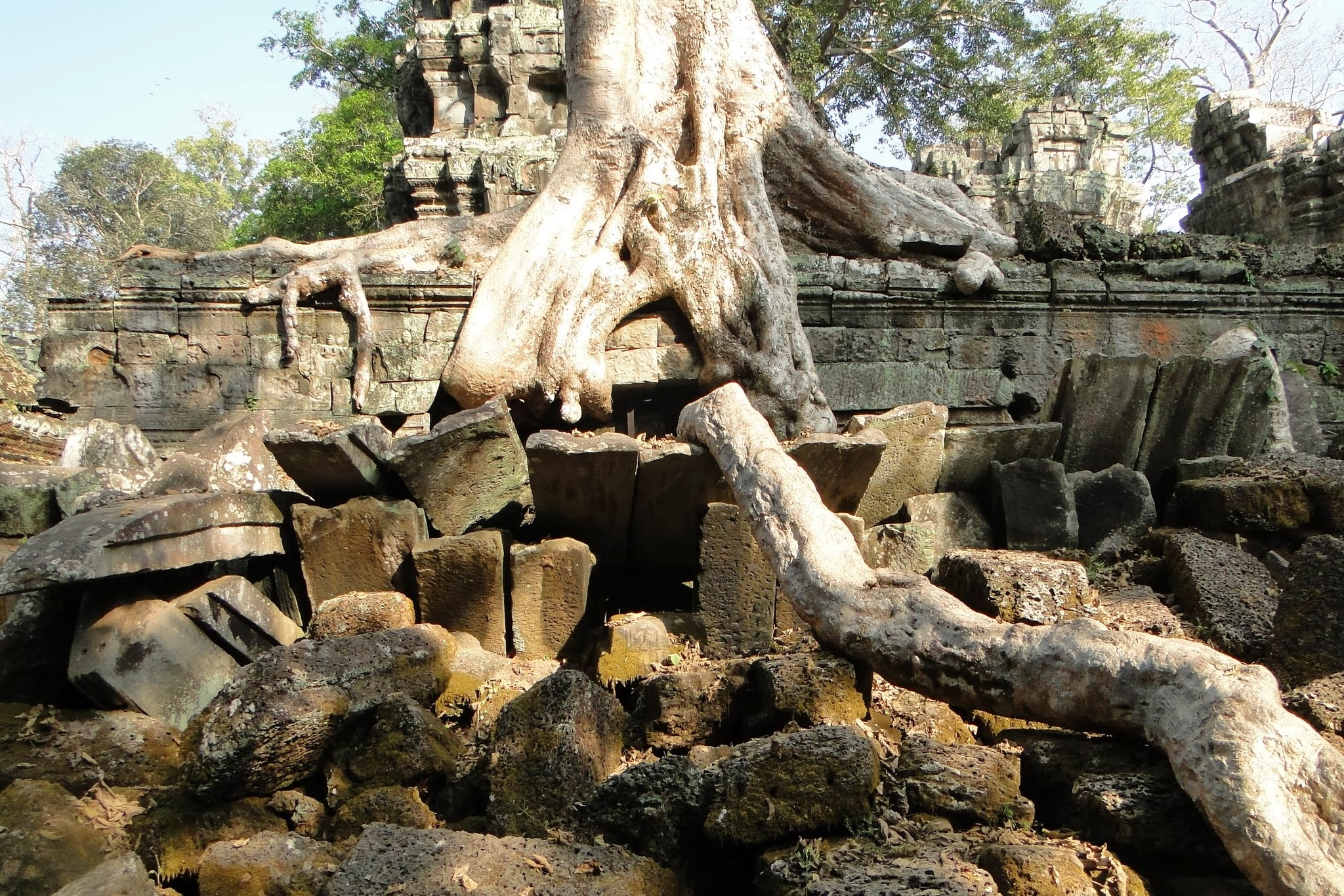 Ta Prohm